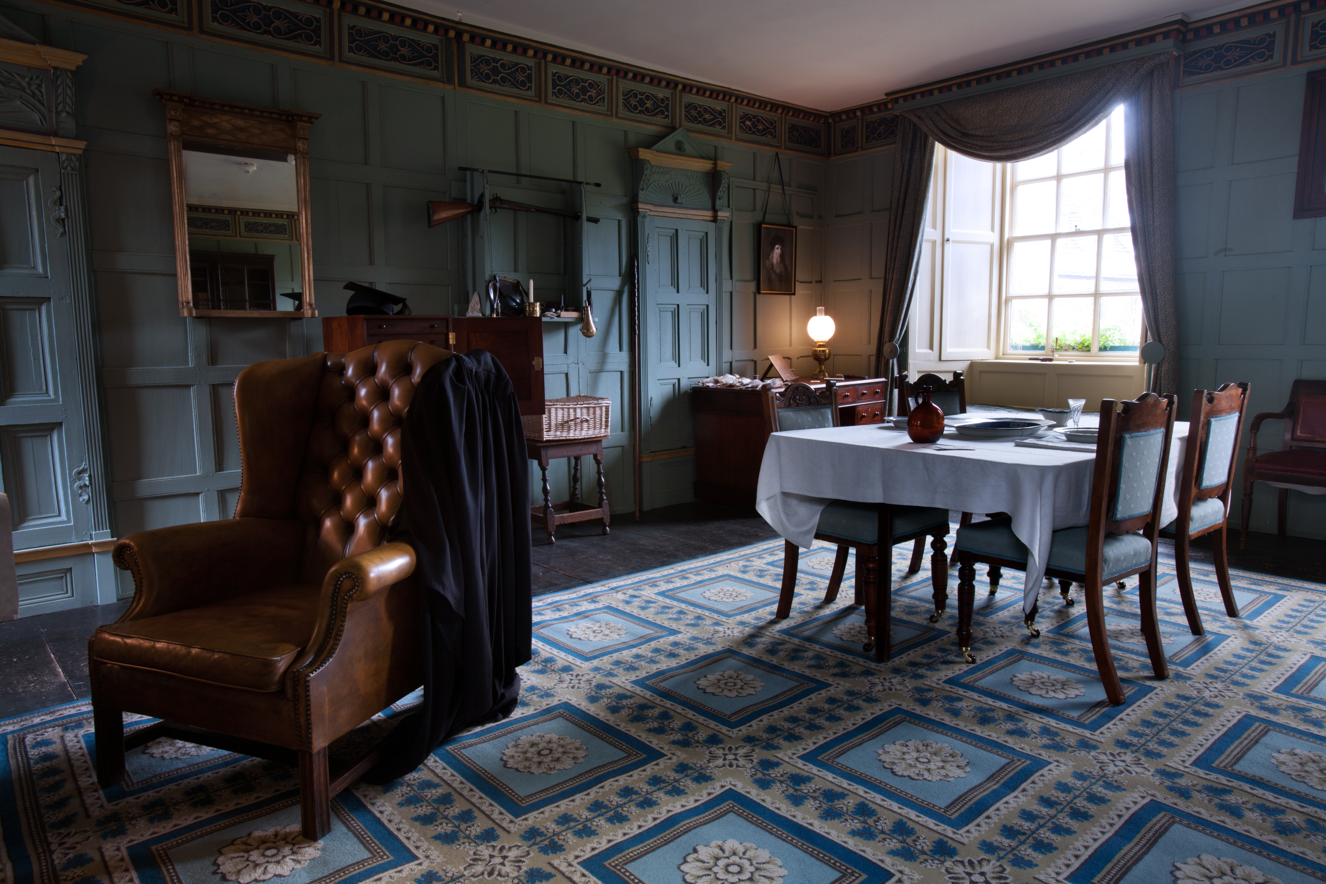 Charles Darwin Room. Christ's College, Cambridge, UK